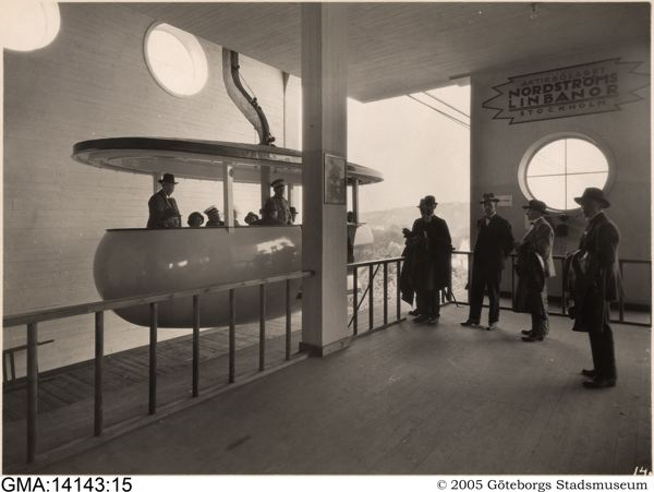 Cableway platform at the Gothenburg anniversary fair 1923, with sign for Aktiebolaget Nordströms linbanor, Stockholm.